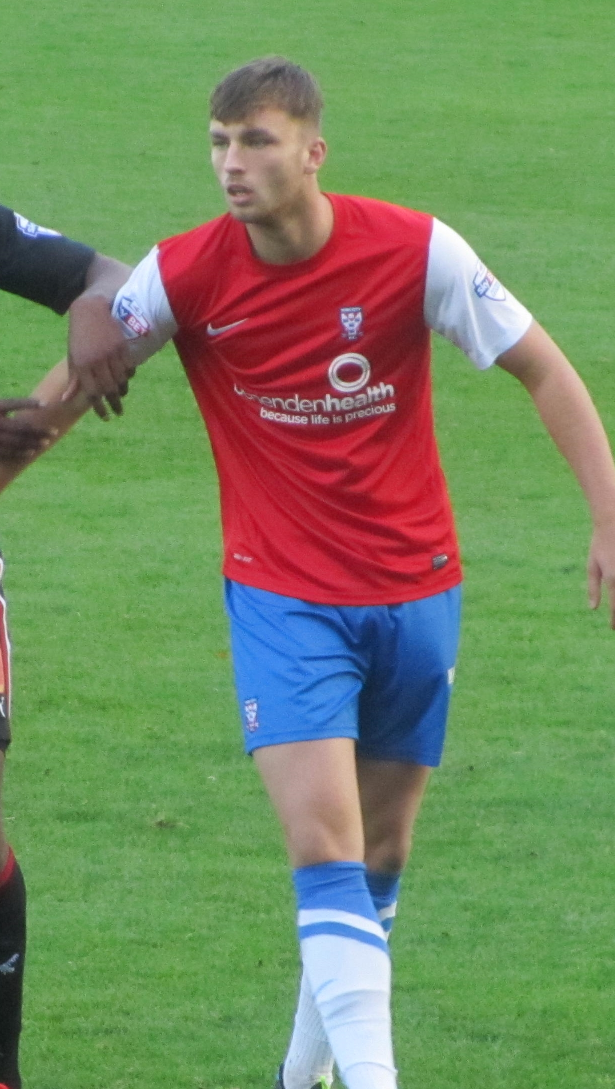 Tom Allan playing for York City against Fleetwood Town at Bootham Crescent, York on 26 October 2013